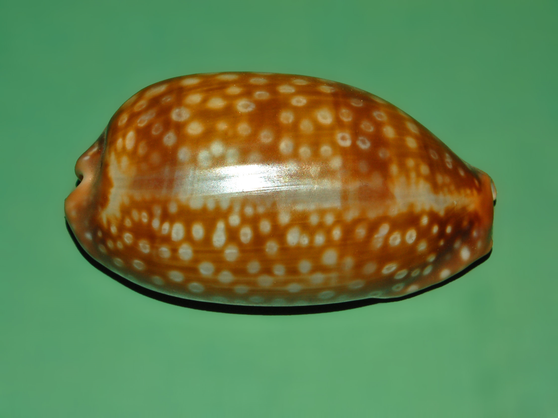 Macrocypraea zebra - Panama